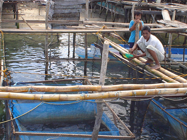 photograph of Lobster Breeding Farm, Malamawi Is., Basilan (USAID GEM Project)